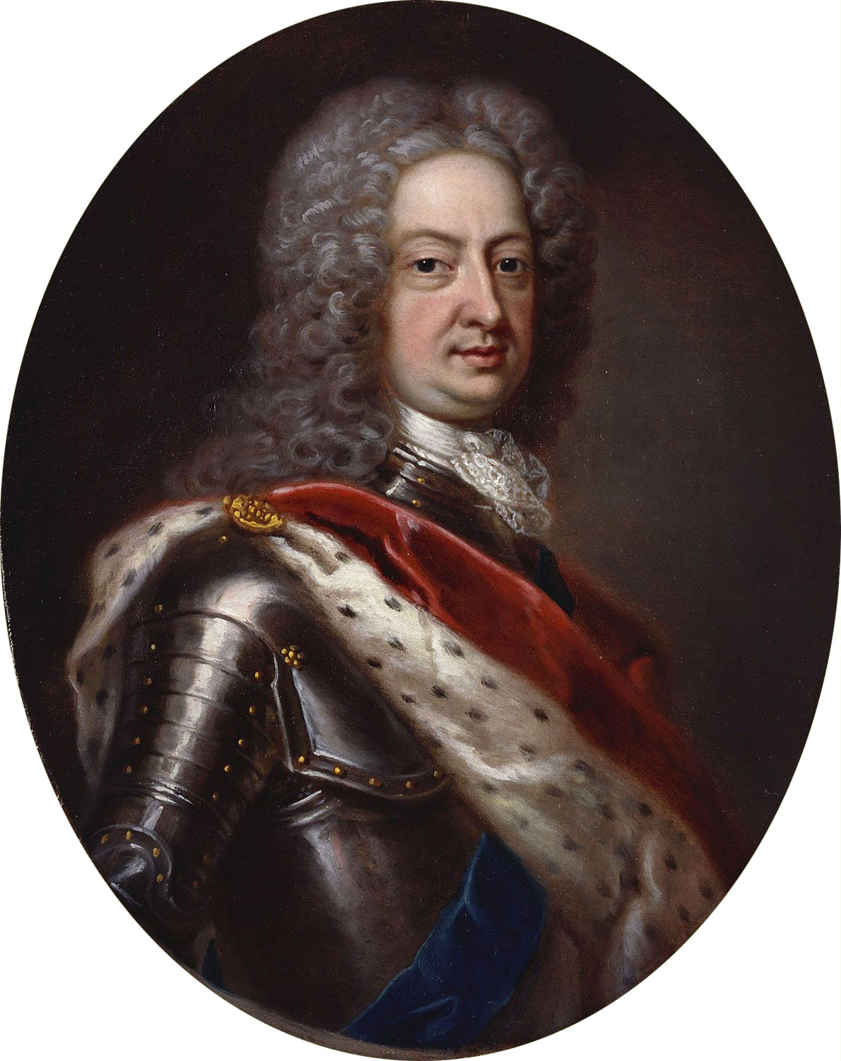 Portrait of Ernest August, Duke of York (1674-1728)